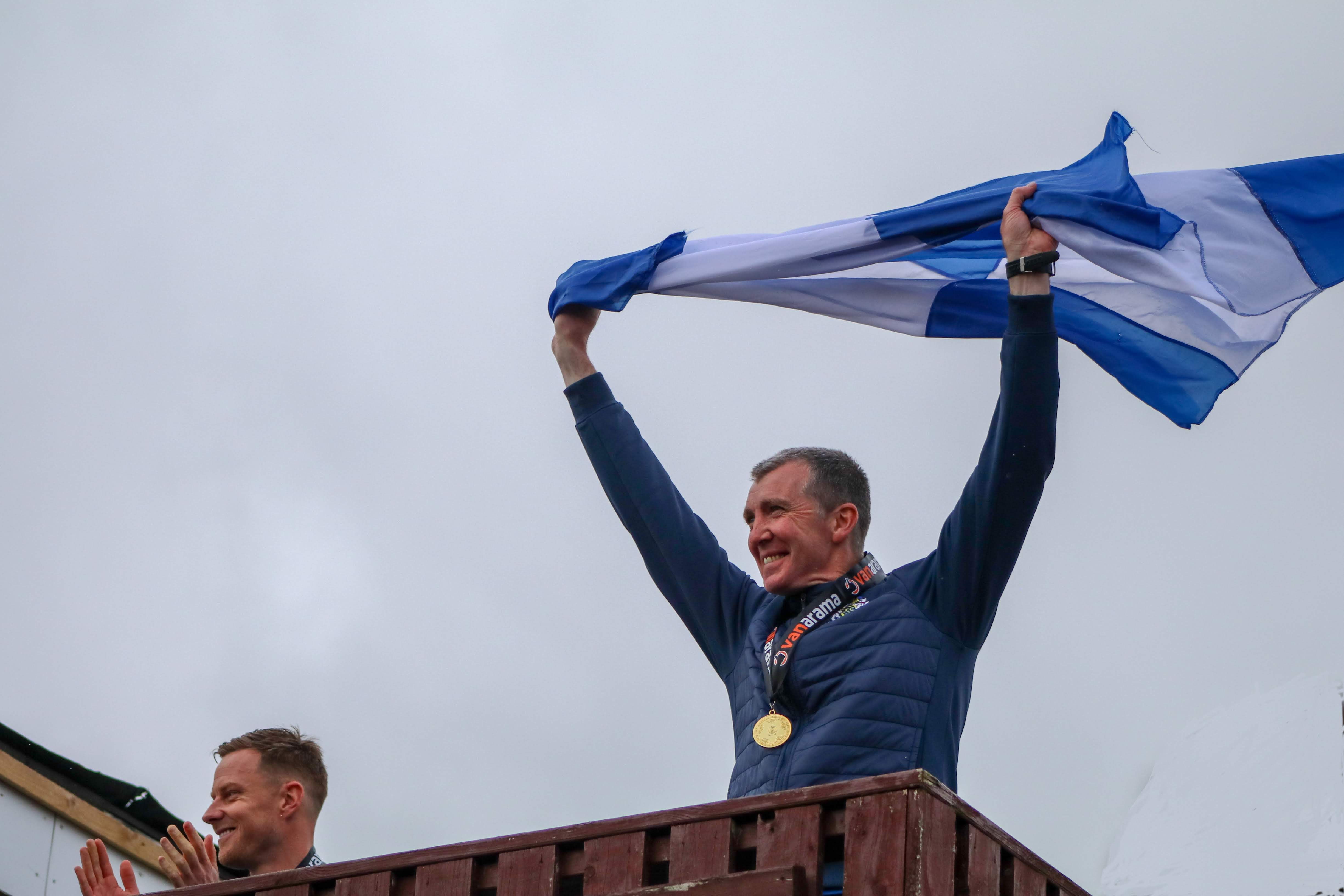 Gannon celebrates after Stockport County win the National League North championship